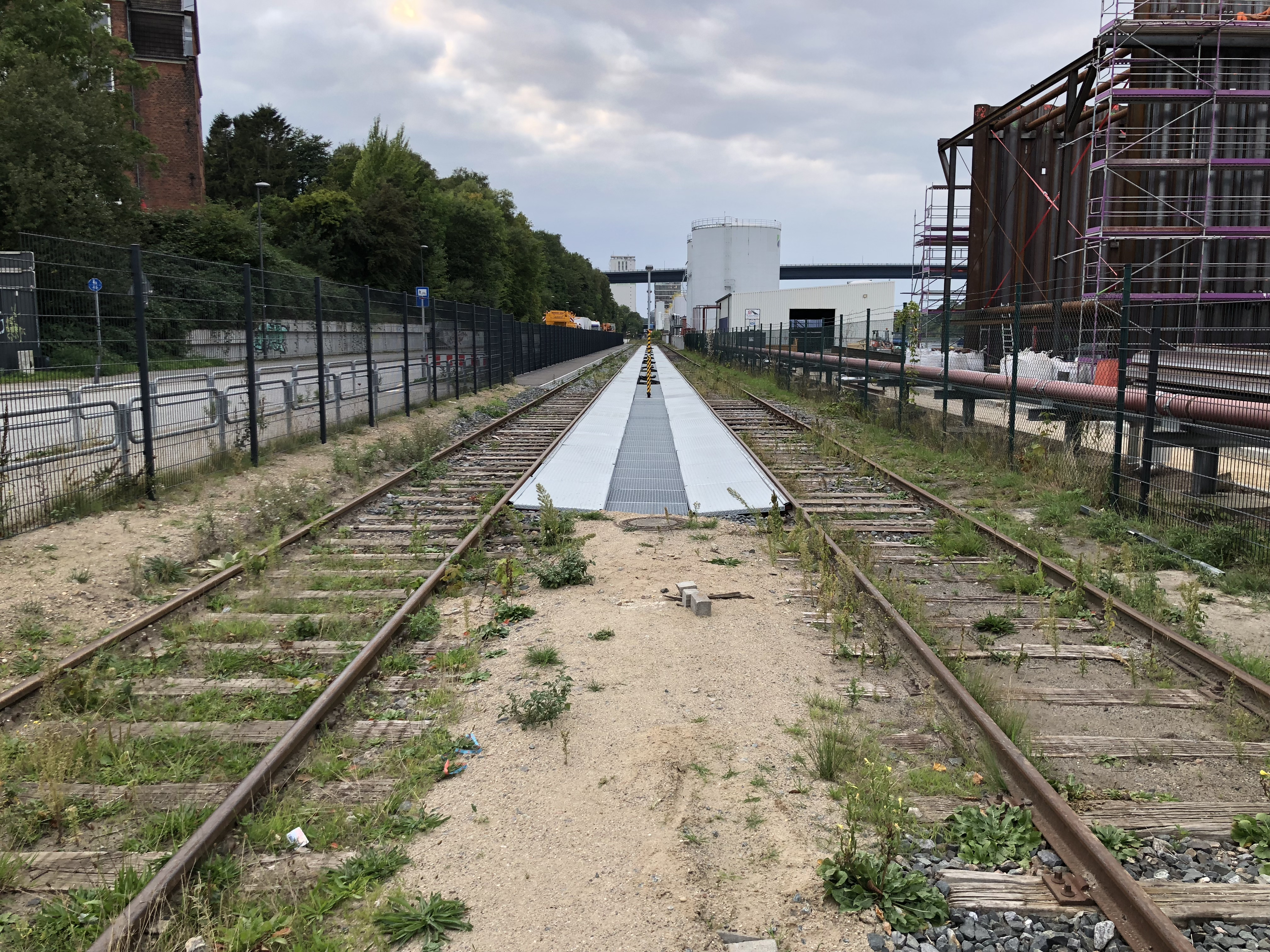 Foto of the railway station for oil 2018 built at the Kiel Canal in Kiel-Wik at the railpath from Kiel-Wik to Kiel-Suchsdorf